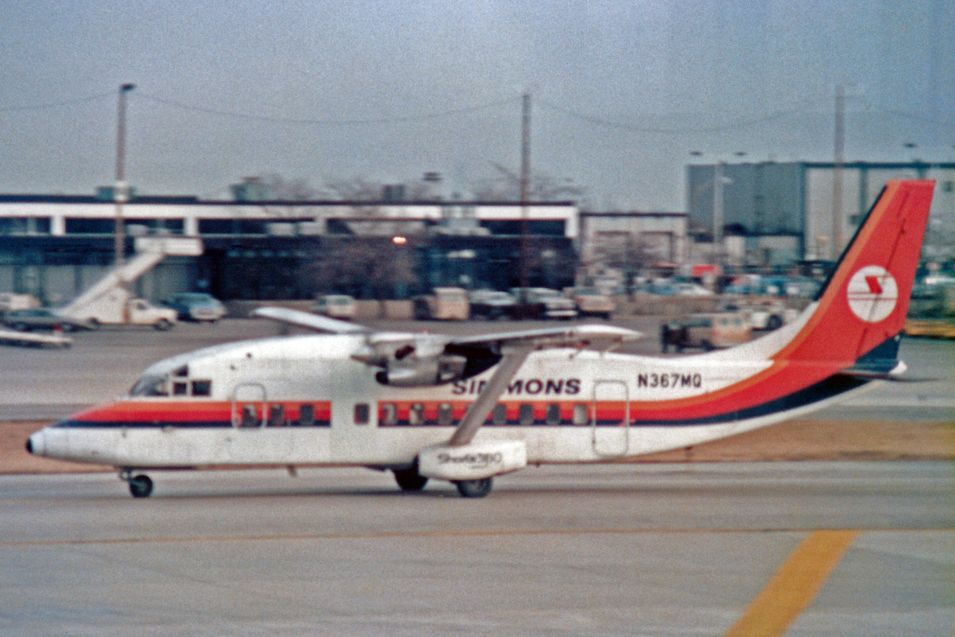 Sorry this is a bit blurred, Chicago, Christmas Eve, below freezing, overcast, late afternoon, going dark... what can I say!